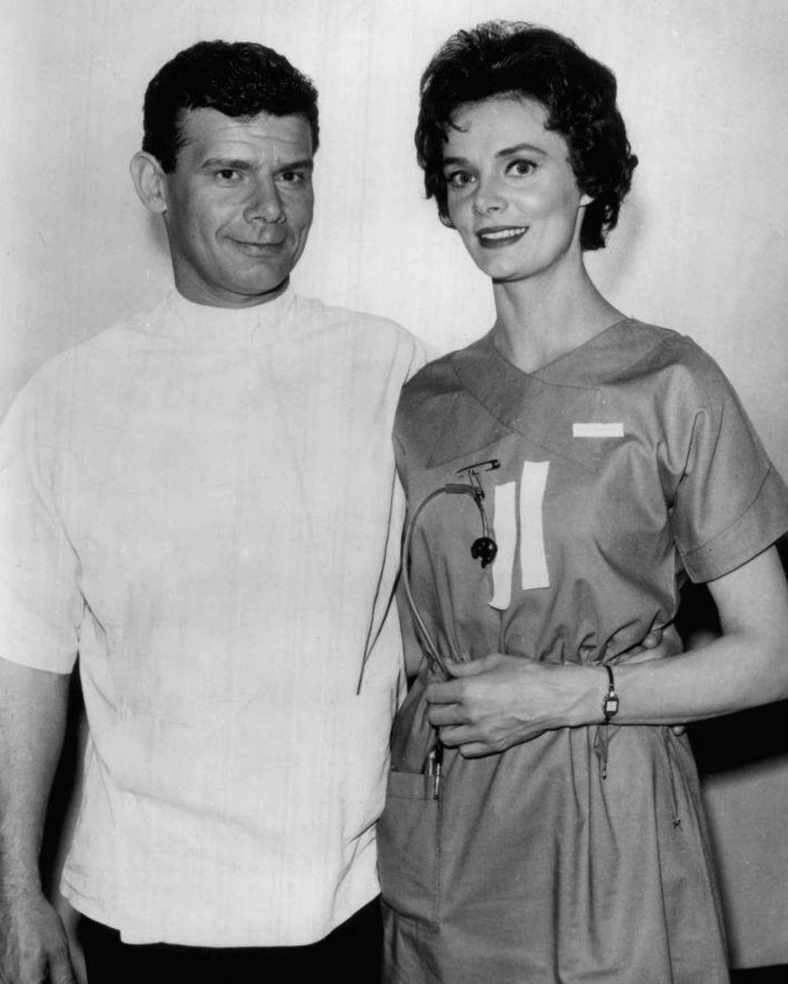 Photo of Harry Landers as Ted Hoffman and Bettye Ackerman as Maggie Graham from the television program Ben Casey.